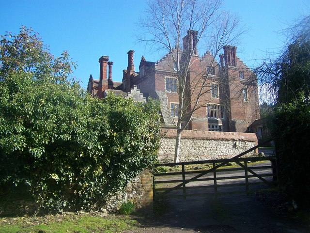 Roydon Hall On Roydon Hall Road. This is an Elizabethan manor house. For more details